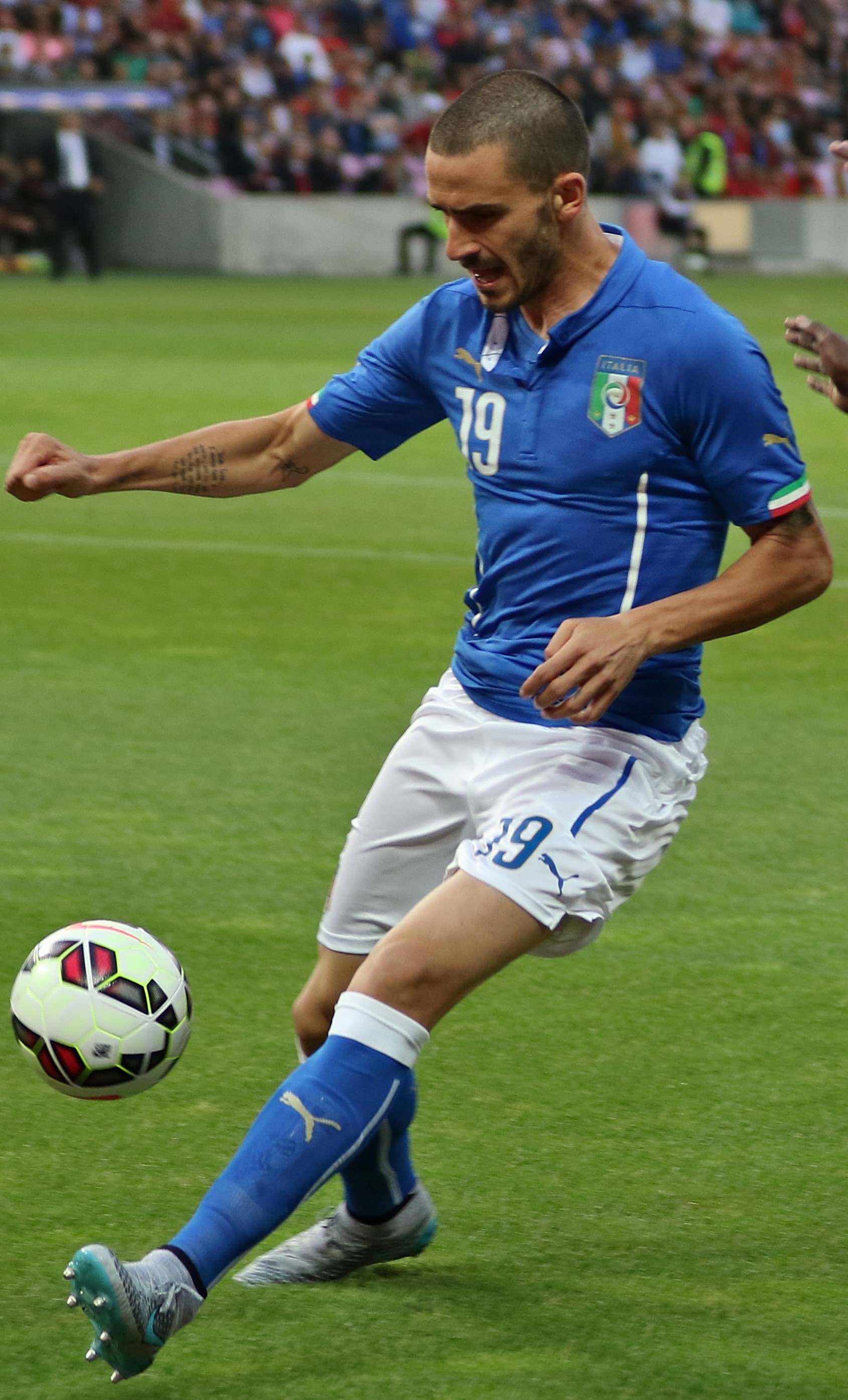 20150616 - Portugal - Italie - Genève - Leonardo Bonucci